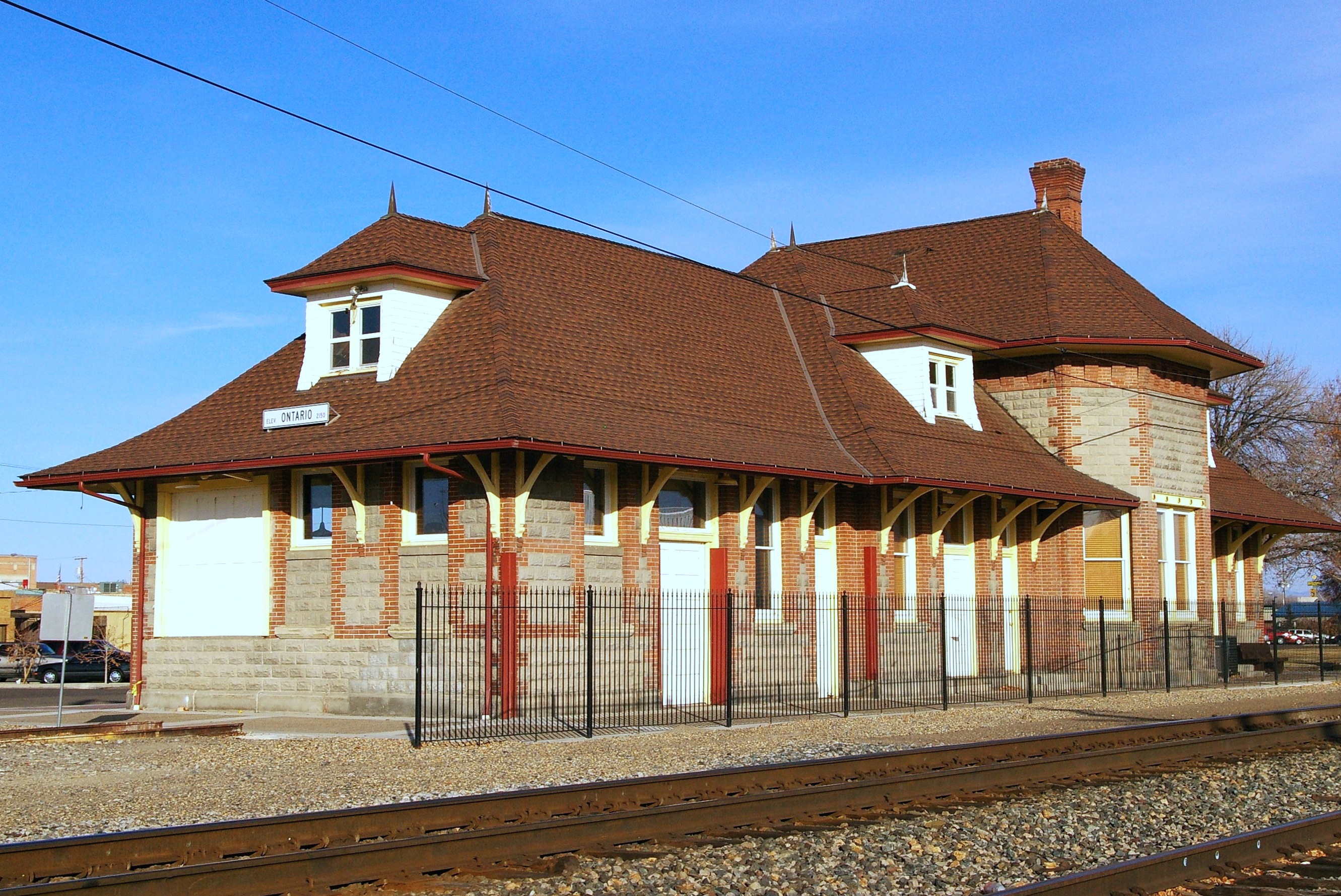 The Oregon Short Line Railroad Depot, in Ontario, Oregon, United States, is listed on the US National Register of Historic Places. Flickr description: Built by Oregon Short Line Railroad in 1907 that eventually merged into Union Pacific. This design is similar to several other OSL stations built around the same time in Oregon, Idaho, and Utah.